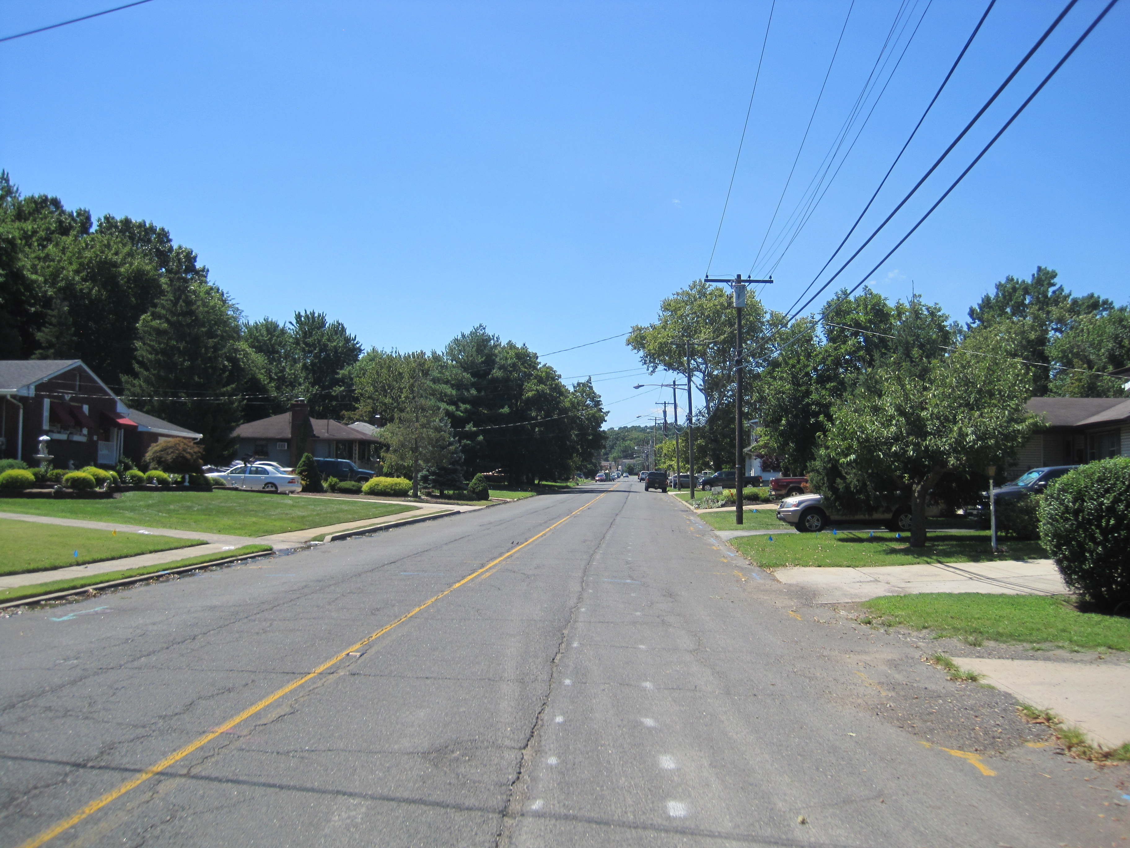 Photo showing Melrose, New Jersey, an unincorporated community within Sayreville. Photo taken along southbound Scott Avenue (County Route 686) between Main Street and Fouratt Avenue.